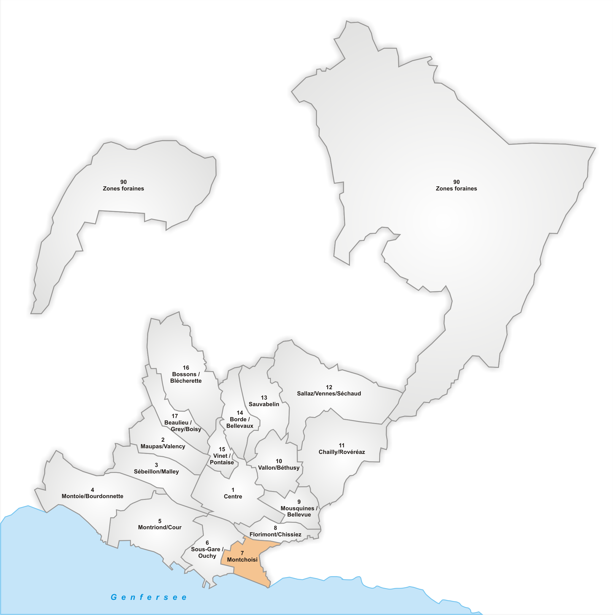 Lausanne Quarter 7